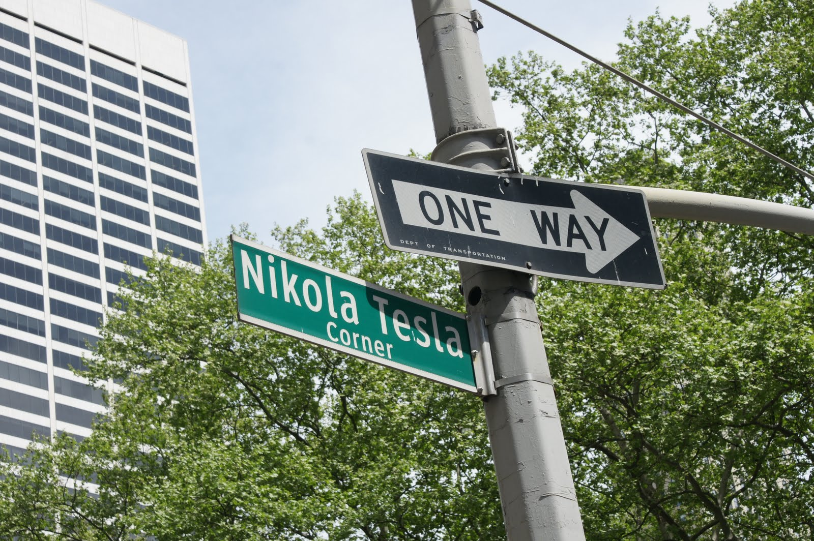 Street sign for Nikola Tesla Corner at Sixth Avenue and 40th Street in Manhattan, New York.